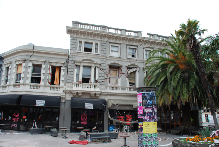 Excelsior Hotel with damage from the 2011 Christchurch earthquake.